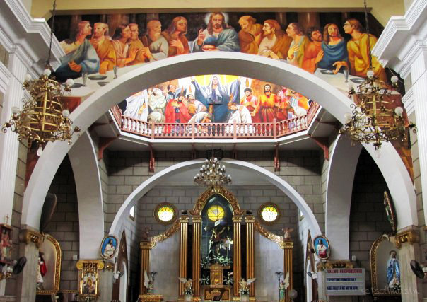 altar